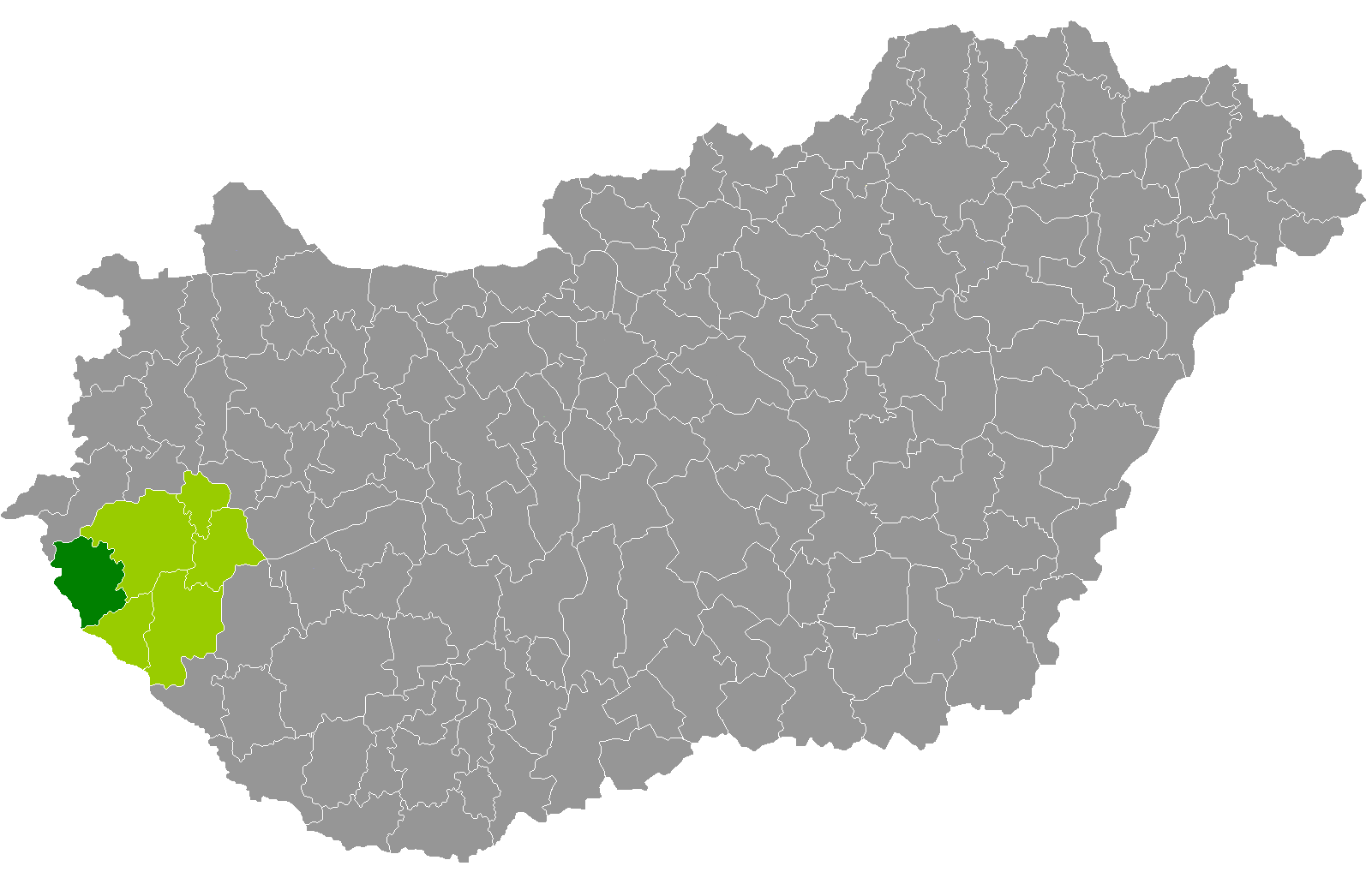 Location of Lenti District, Zala, Hungary